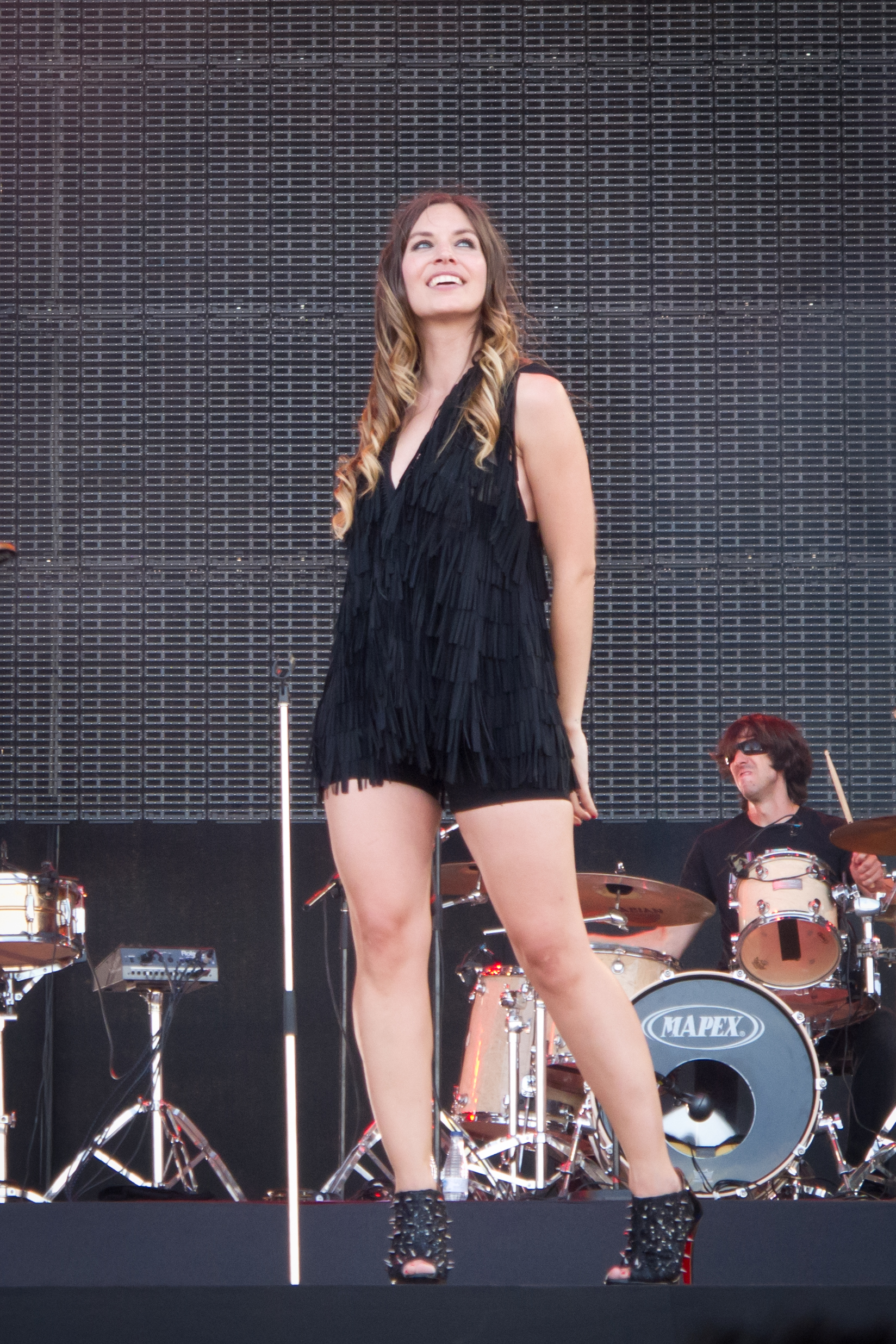 La oreja de Van Gogh in Rock in Rio Madrid 2012.